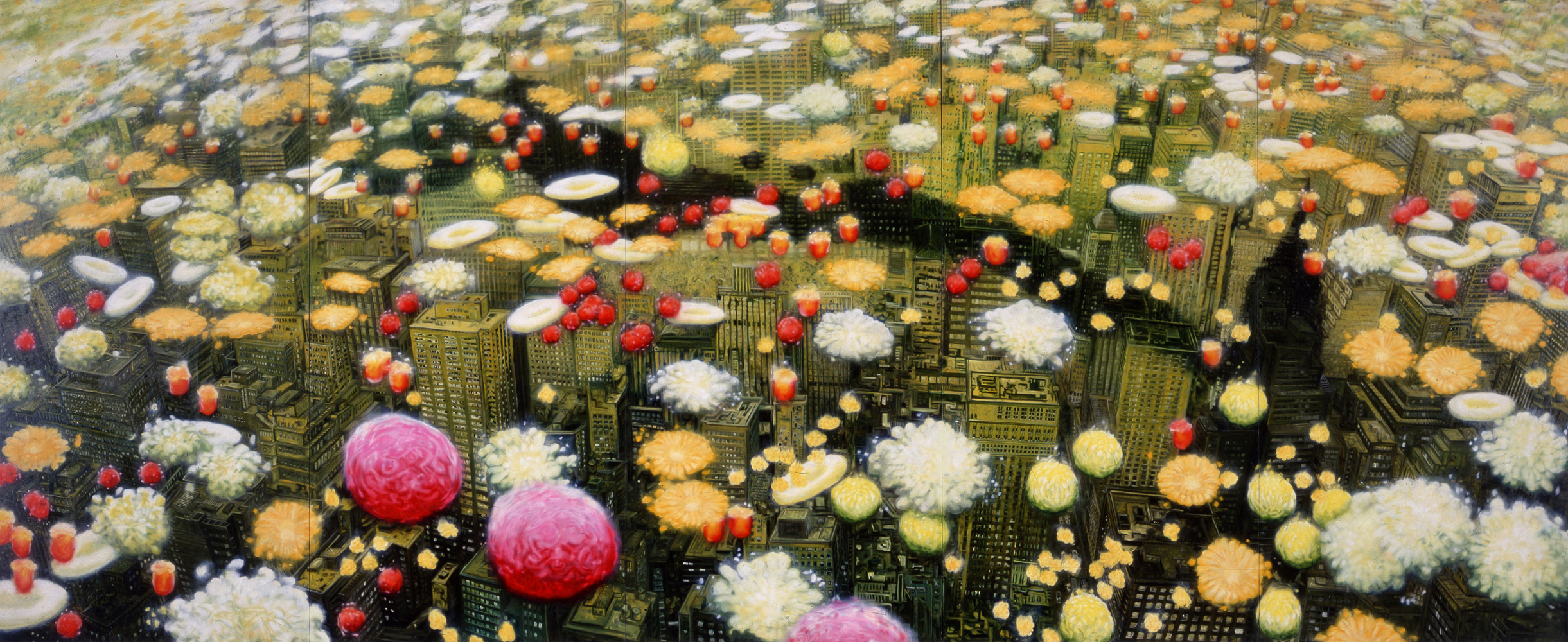 Oil on canvas, 227 x 555 cm / 90 x 220 inches, The National Museum of Modern Art, Tokyo collection. Image courtesy: ©Oscar Oiwa Studio, NY.